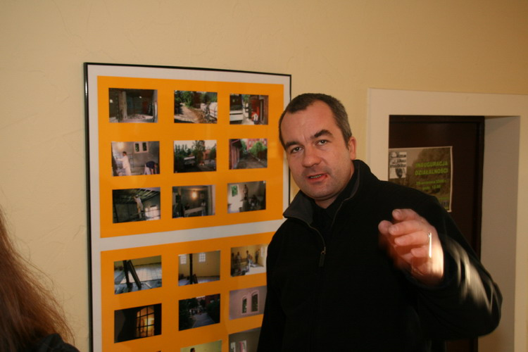 Sebastian Malinowski in his museum